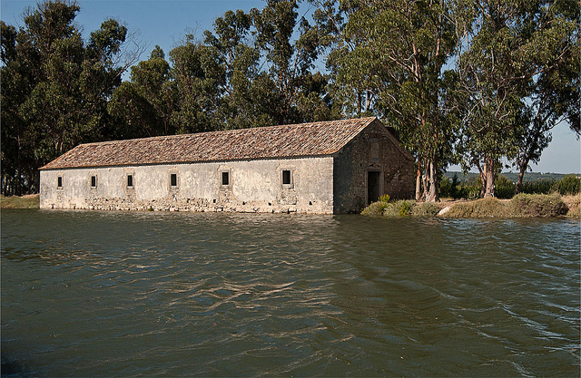 Moinho das Marés